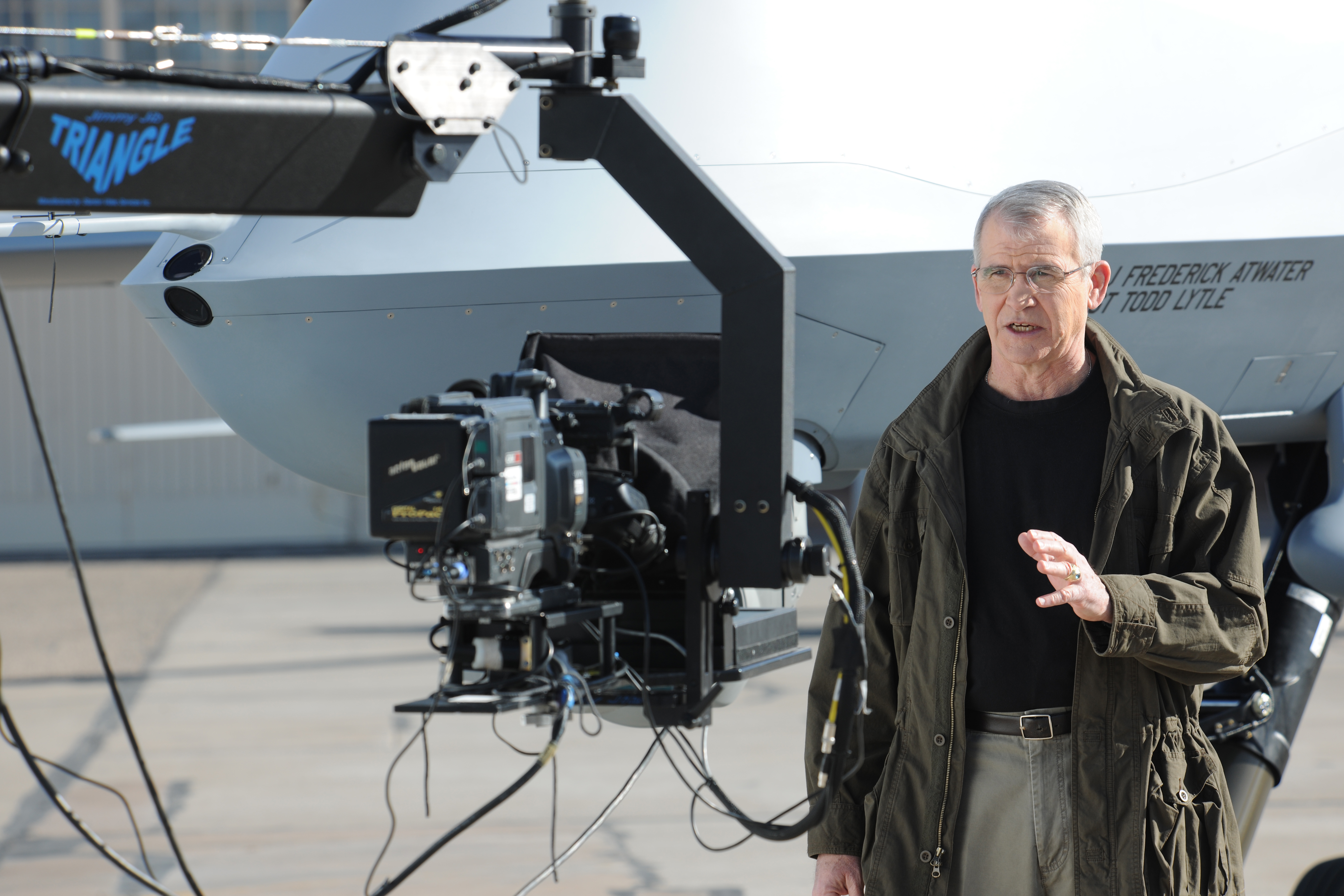 HOLLOMAN AIR FORCE BASE, N.M. -- Retired Marine Lt. Col. Oliver North with the Fox News Channel films a scene in front of an MQ-1 Predator, Feb. 18, for a documentary on the Air Force’s Remotely Piloted Aircraft mission. The FNC crew was filming part of the series called "War Stories with Oliver North." (U.S. Air Force photo/Tech. Sgt. Alan Port)